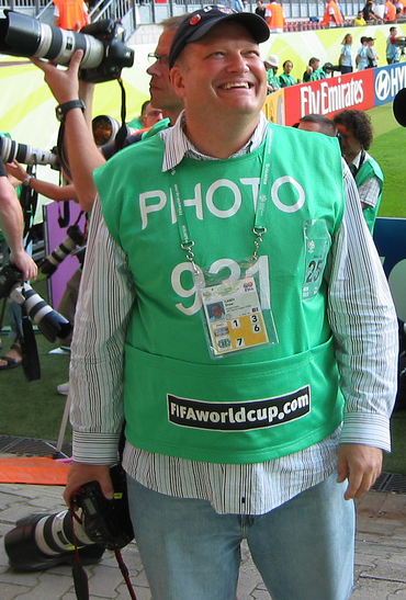 Drew Carey working as a sports photographer during the FIFA World Cup in Germany.